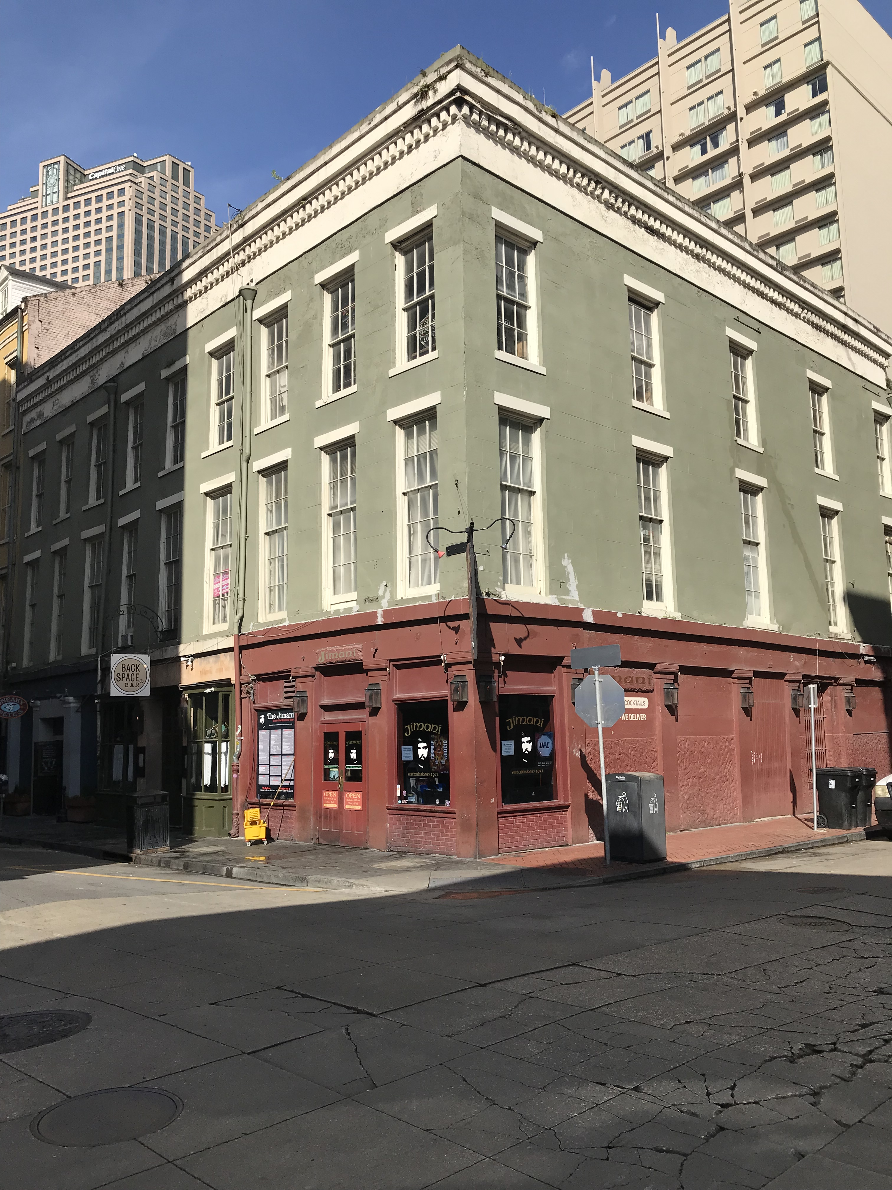 Located at 141 Chartres Street in the French Quarter of New Orleans, on the second floor of this building was the UpStairs Lounge, where the Metropolitan Community Church held services. Site of an arson attack in 1973, resulting in the deaths of 32 people.